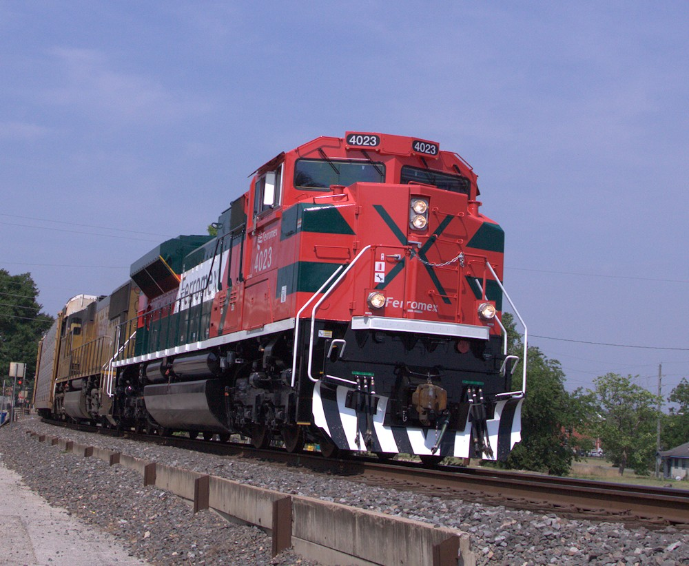 FXE 4023 eastbound in Richmond, TX